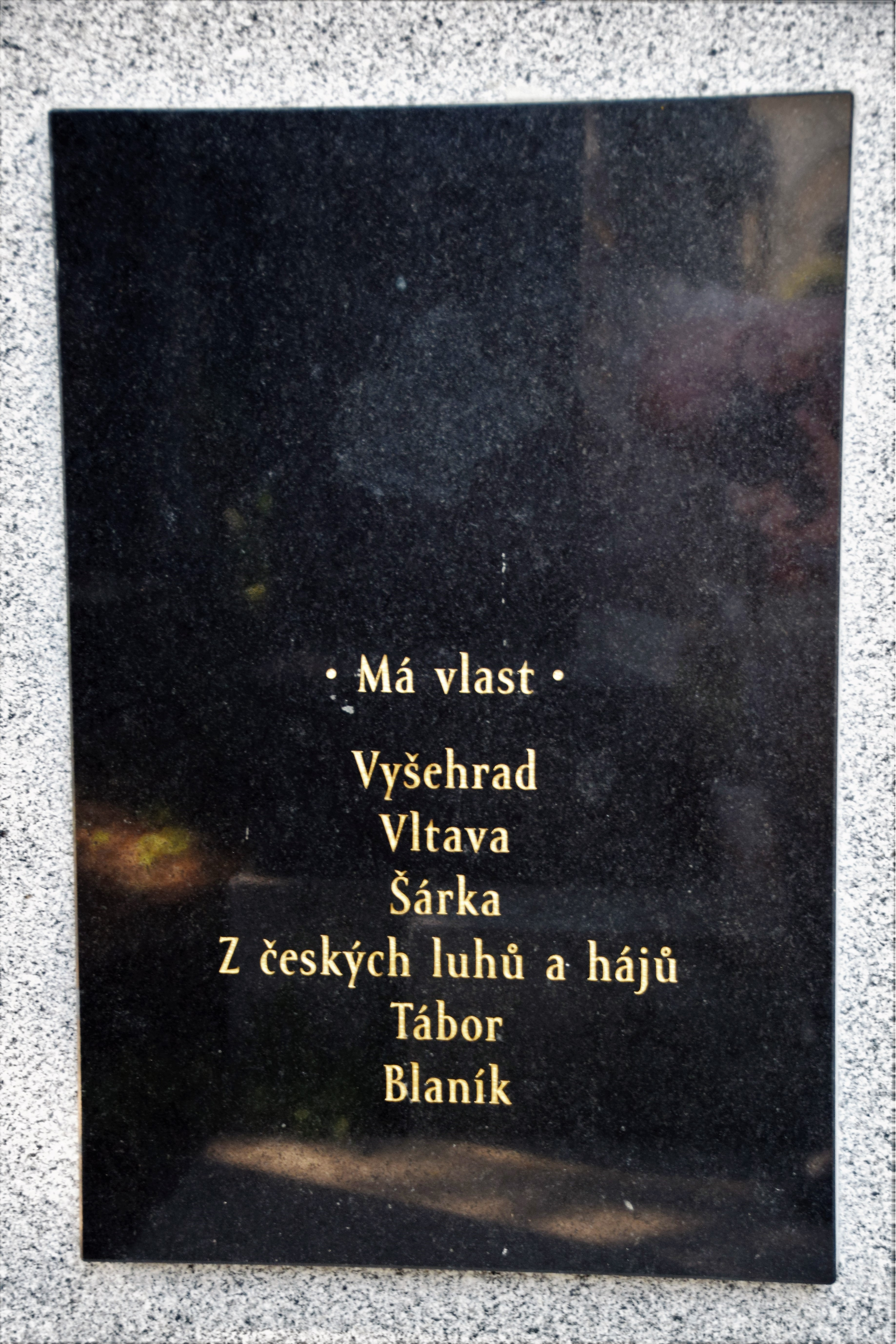 Detail of Smetana's grave monument at the National Cemetery in the Vyšehrad fortress, Prague